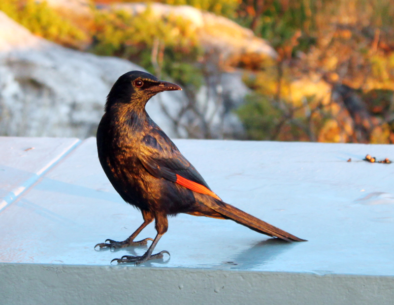 A Red-winged Starling in Cape Town, South Africa.